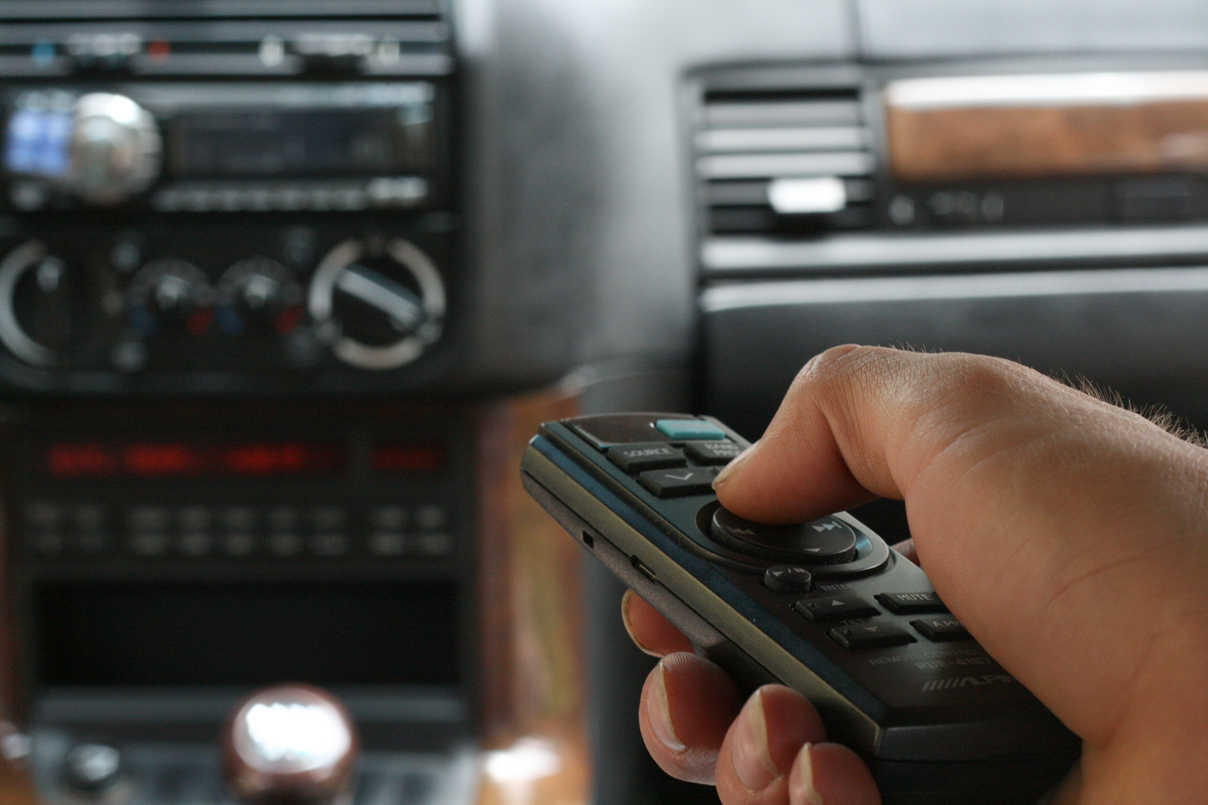 Using a remote control associated with the aftermarket Alpine audio unit from the back seat of a 1995 BMW M3.